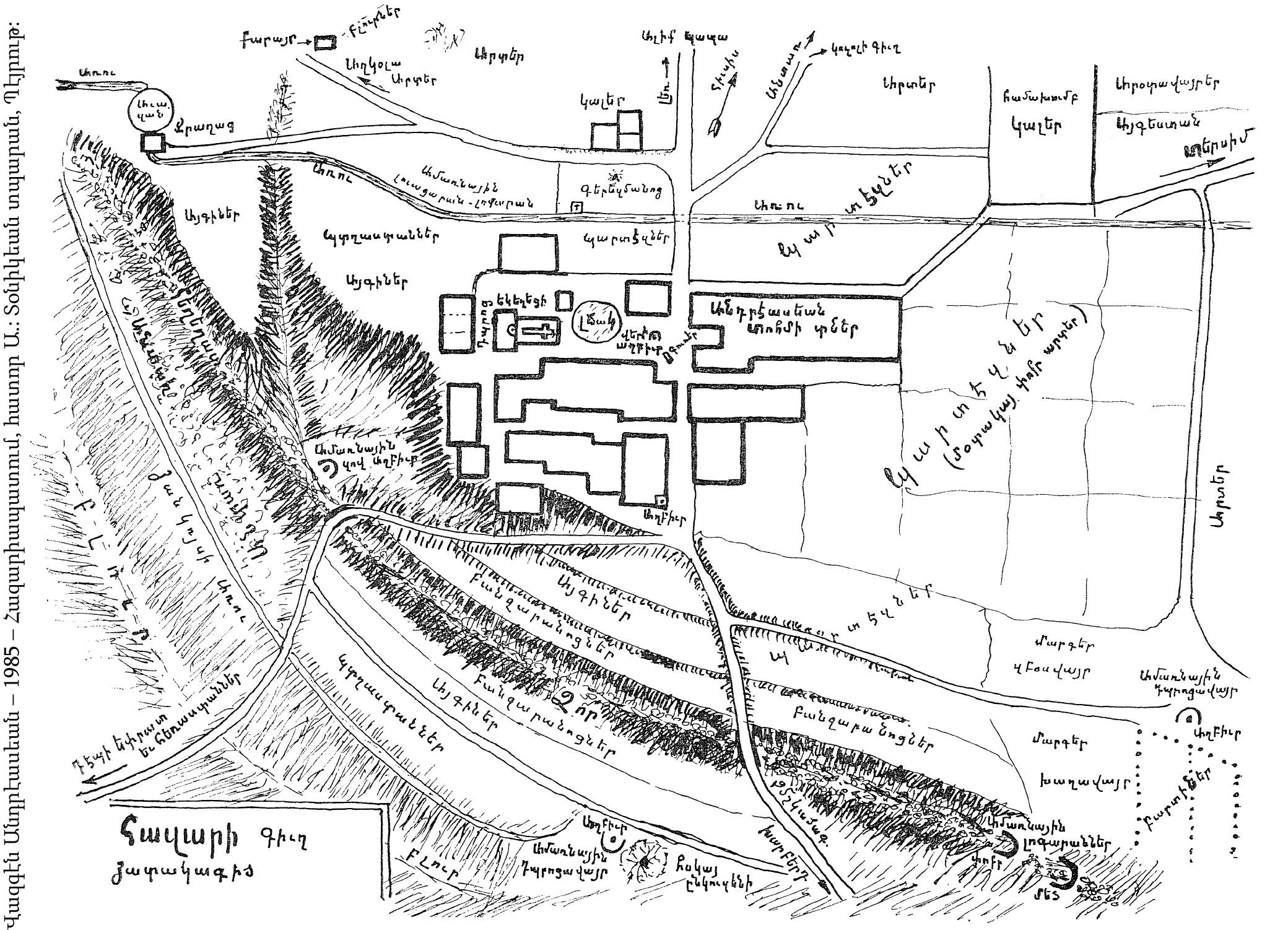 Map of the Armenian village of Hazari, located near the town of Tchmchgadzak (now Cemisgezek), drawn by Vazken Andréassian (1903-1995)